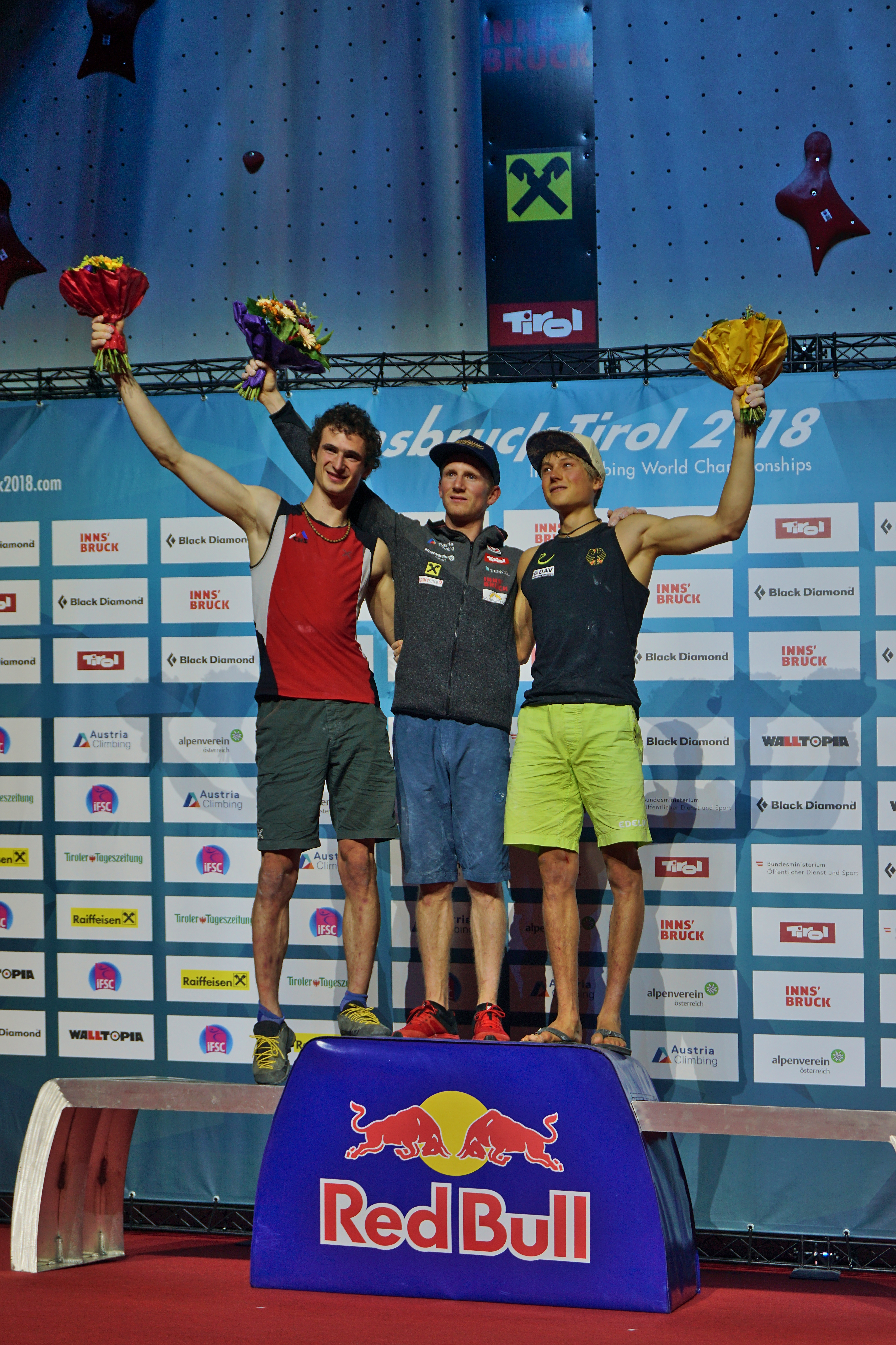 IFSC Climbing World Championships Innsbruck 2018 Final MAN lead – winners 2nd Adam Ondra (left), 1st Jakob Schubert (middle), 3rd Alexander Megos (right)